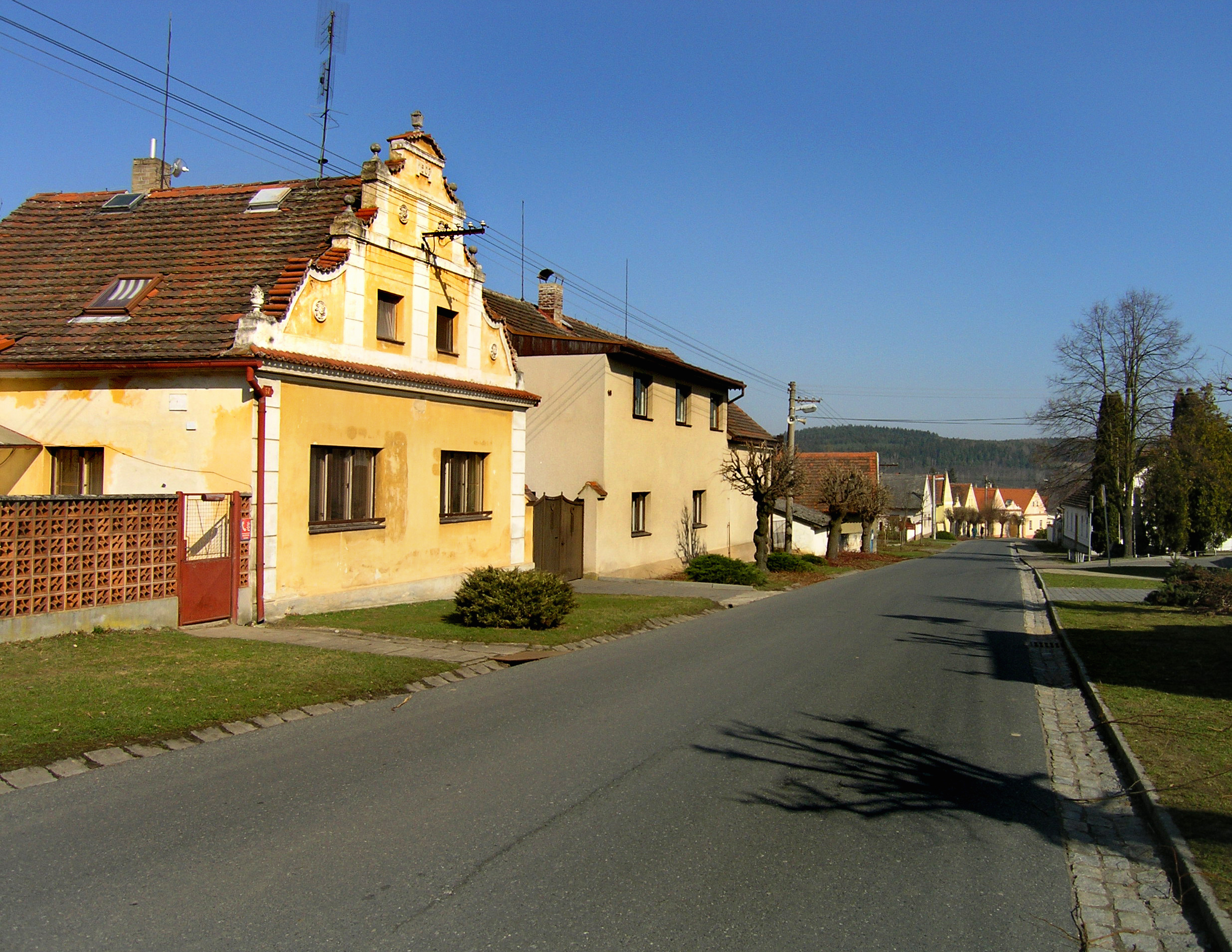 Main street in Ejpovice village, Czech Republic